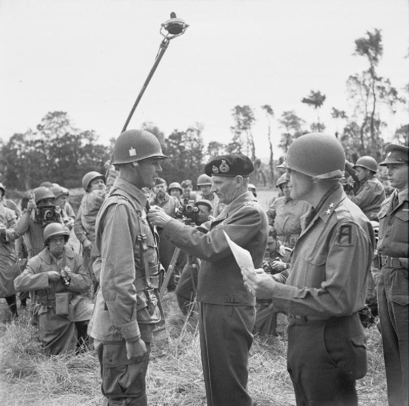 Operation 'market Garden' (the Battle For Arnhem)- 17 - 25 September 1944 Personalities: Major-General Maxwell Taylor, Commander of the 101st (US) Airborne Division which mounted the assault on Eindhoven; pictured here receiving the DSO from General Sir Bernard Montgomery for gallantry in action at Carentan on 12 June 1944.